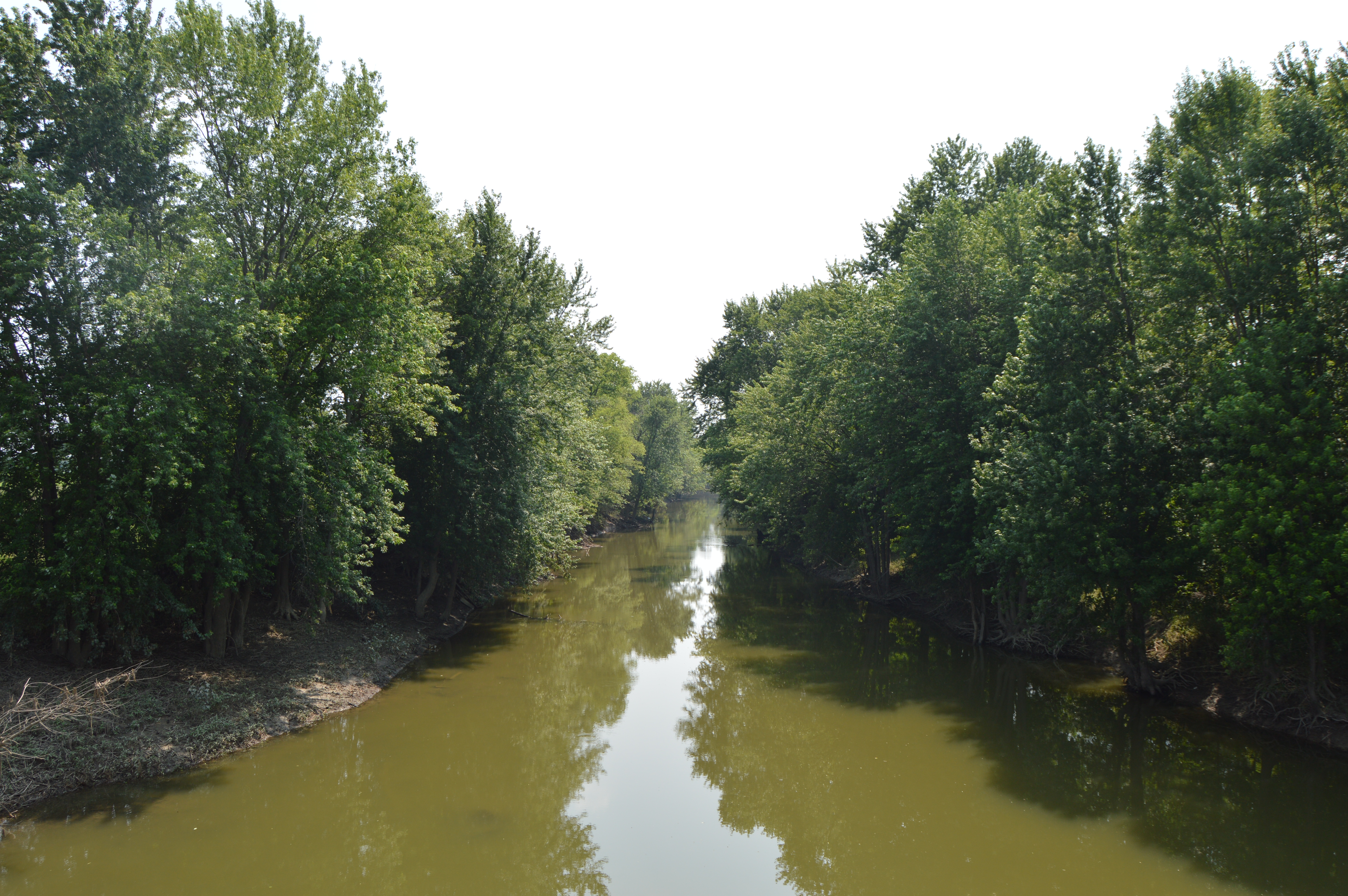 Looking upstream along the Blanchard River from the State Route 235 bridge north of Benton Ridge in Blanchard Township, Hancock County, Ohio, United States.